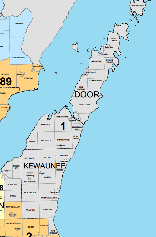 Wisconsin's 1st Assembly District as it will appear in elections between 2012 and 2020.